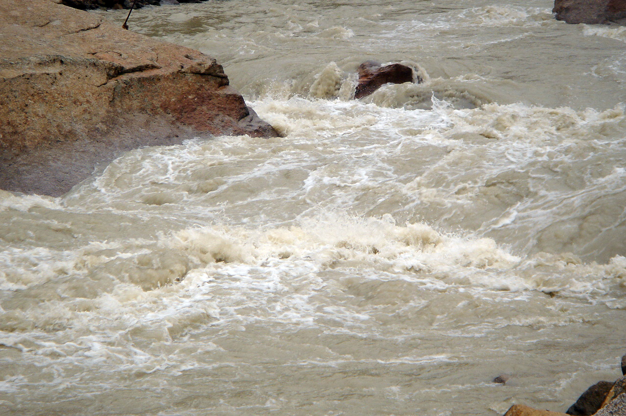 Yarlung Zangbo River (also known as Tsangpo River and Yarlung Tsangpo River) in Tibet, China